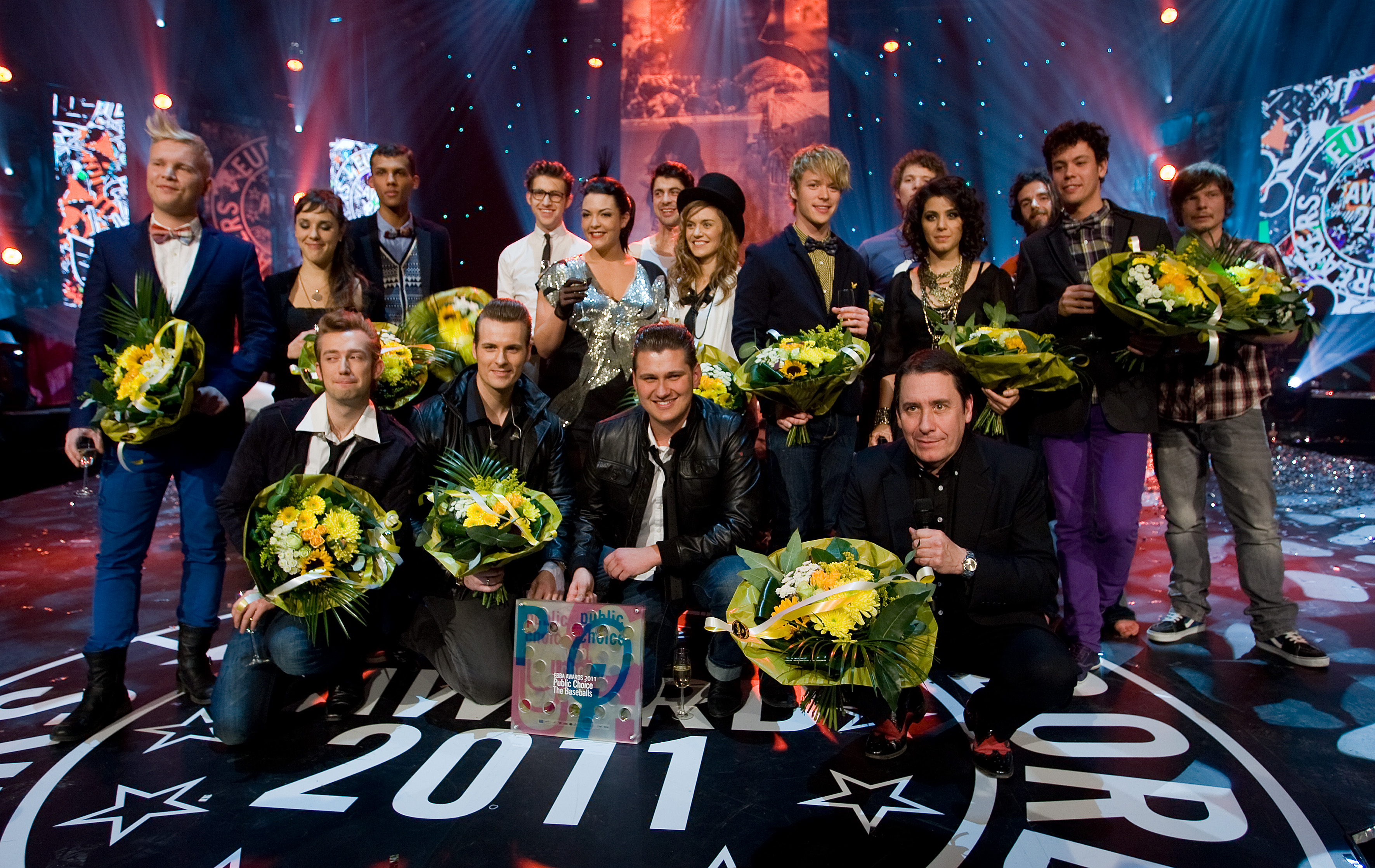 European Border Breakers Awards 2011 - All winners - By René Keijzer